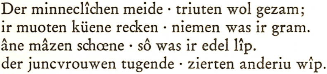 Text of the medieval “Nibelungenlied”, verse 9–12, as printed in a 1994 edition (Das Nibelungenlied – Urtext mit Übertragung, Darmstadt (Germany) 1994, ISBN 3-89350-845-7, p. 6), using the interpunct to separate the verse parts